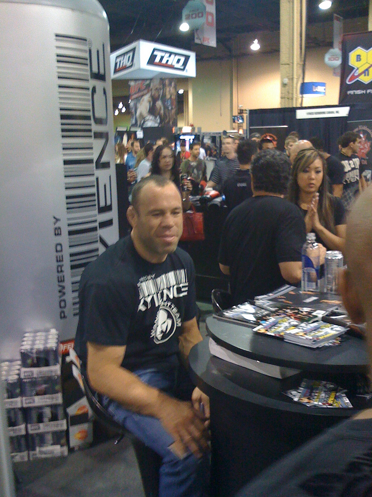 Wanderlei "The Axe Murderer" Silva with fans - UFC 100 Fan Expo - Mandalay Bay Casino, Las Vegas